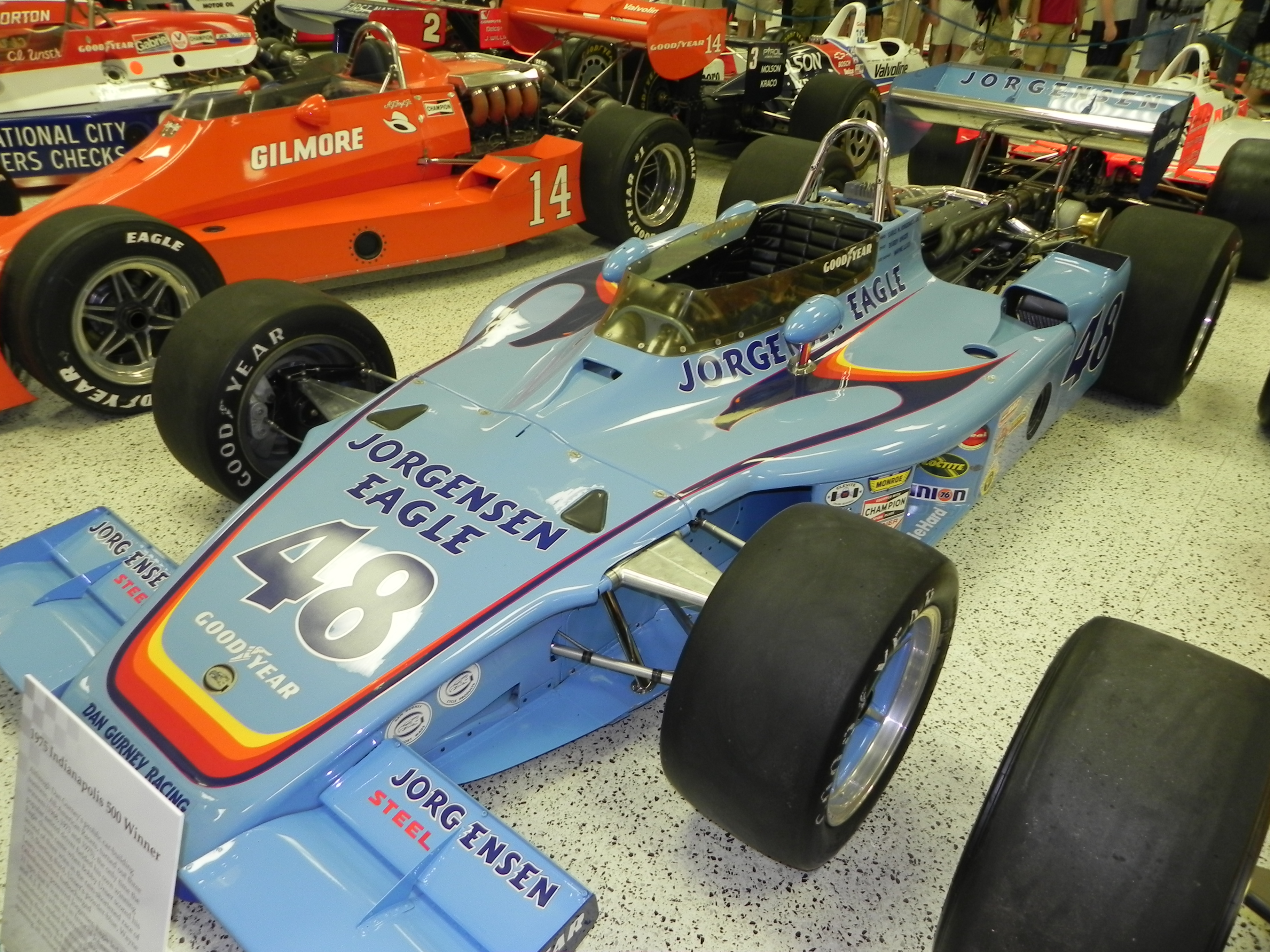 Image of the winning car of the 1975 Indianapolis 500 (Bobby Unser). Photo was taken at the Indianapolis Motor Speedway Hall of Fame Museum, during the month of May 2011, at the 100th Anniversary "Ultimate Indianapolis 500 Winning Car Collection."